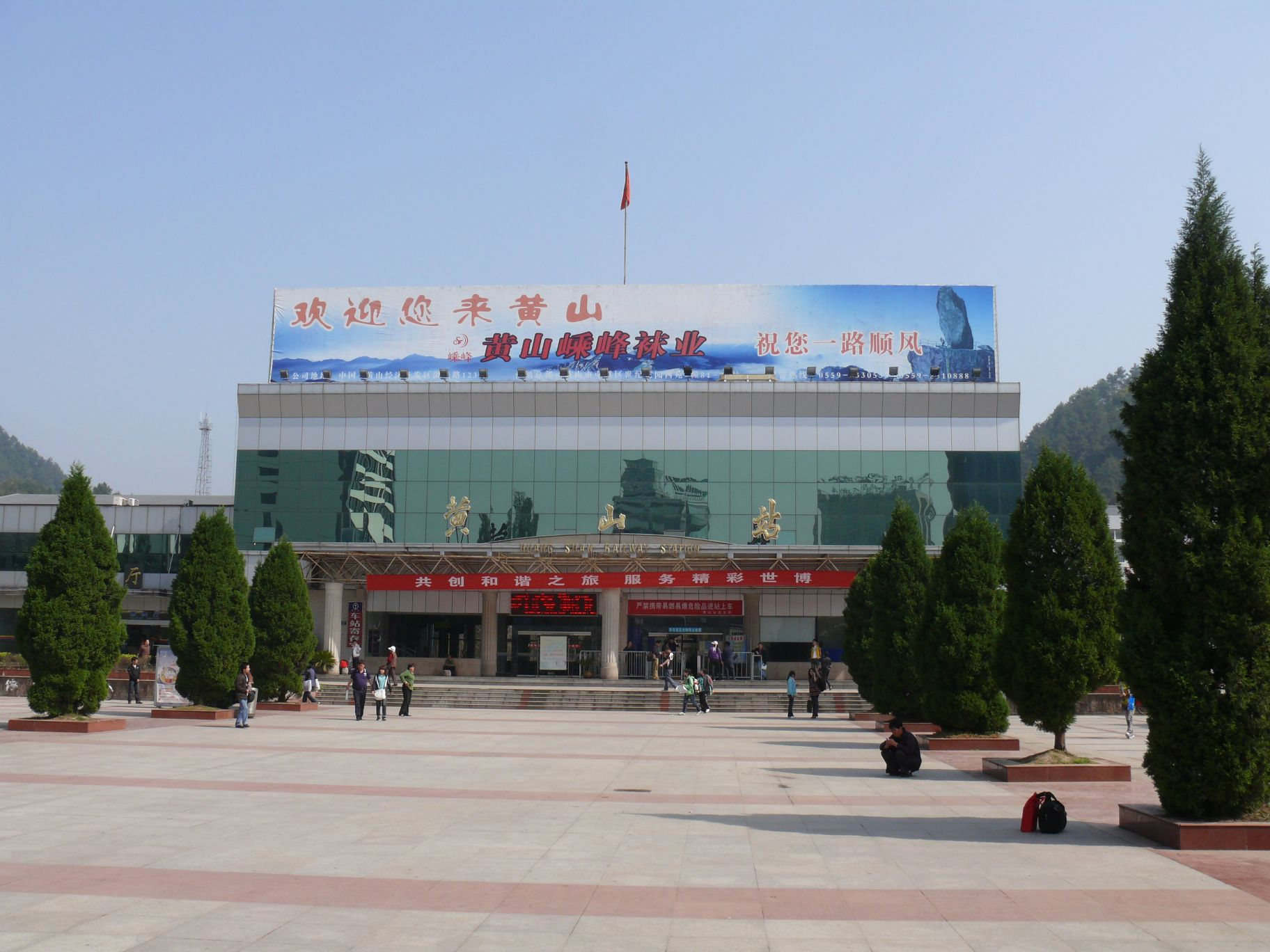 The train station in Huangshan (Anhui, China).